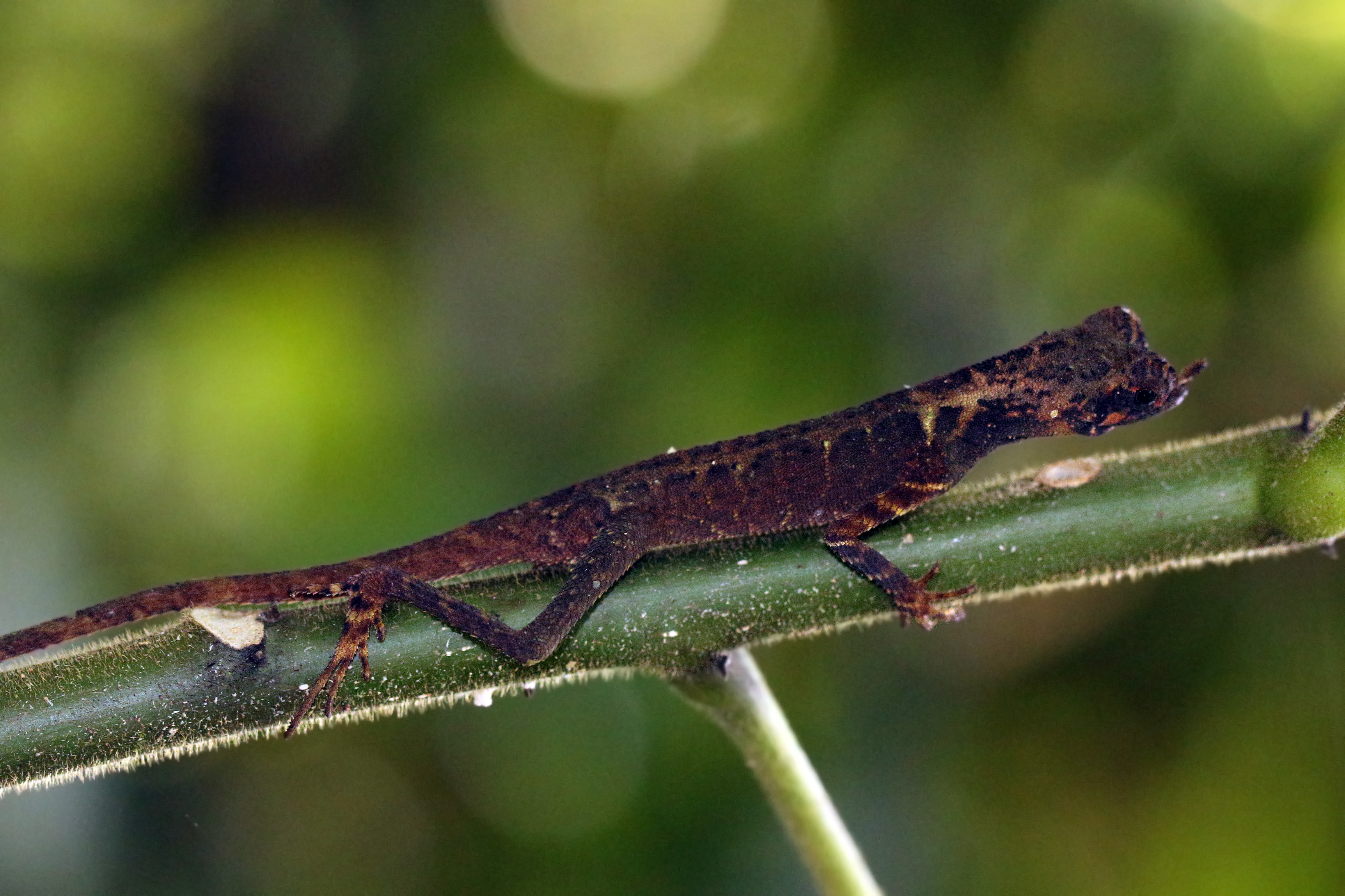 Leaf-nosed agama (Aphaniotis ornata), Danum Valley Conservation Area, Sabah, Borneo, Malaysia